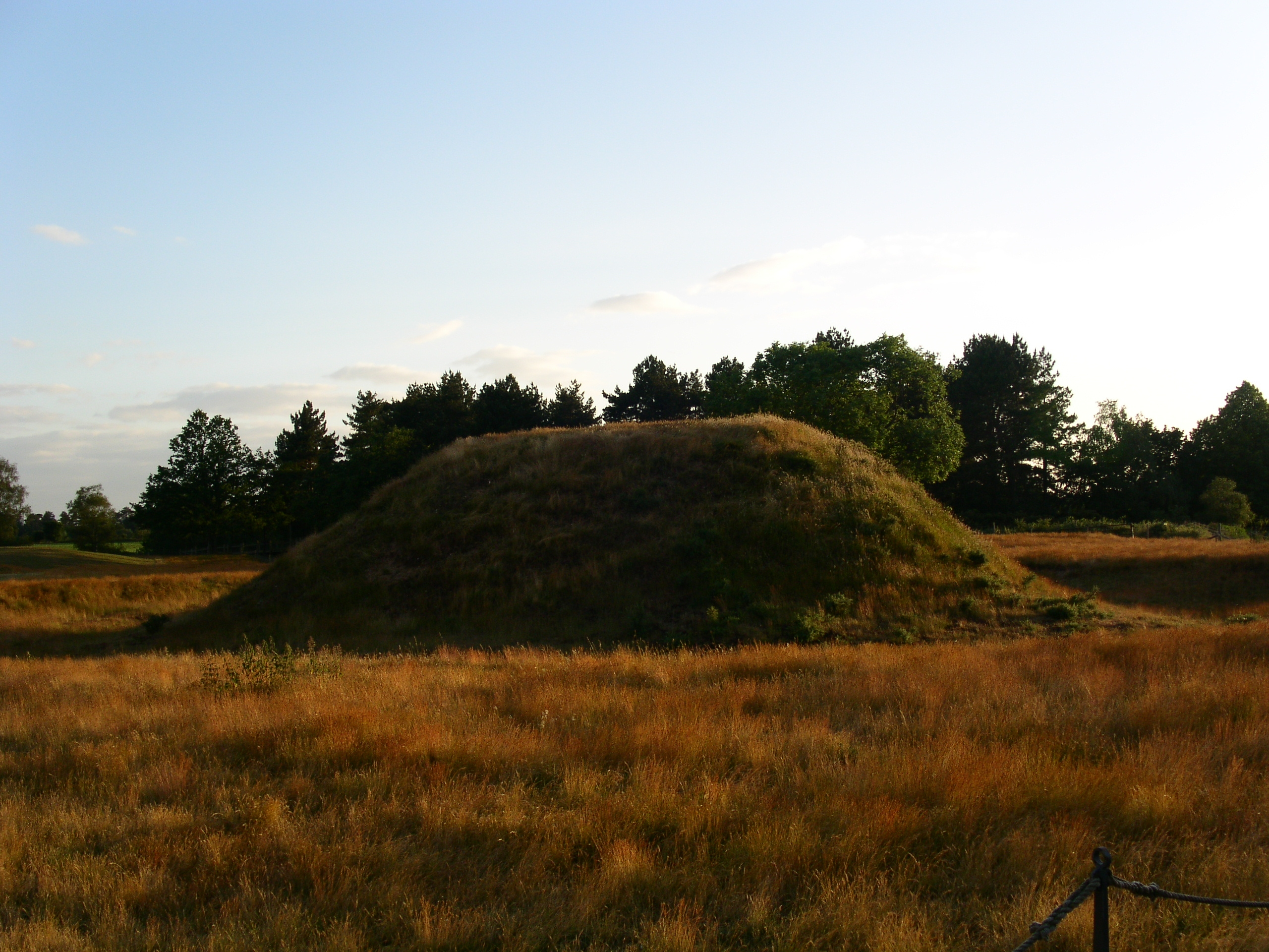 Burial mound 2 at Sutton Hoo, Suffolk, UK. The photo was taken close to sunset on 21 June 2006 (day of the Summer Solstice). This mound has been reconstructed to its supposed original height.